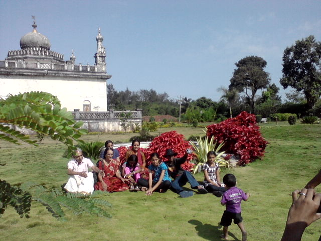 the tomp of king rajendra at gaddige